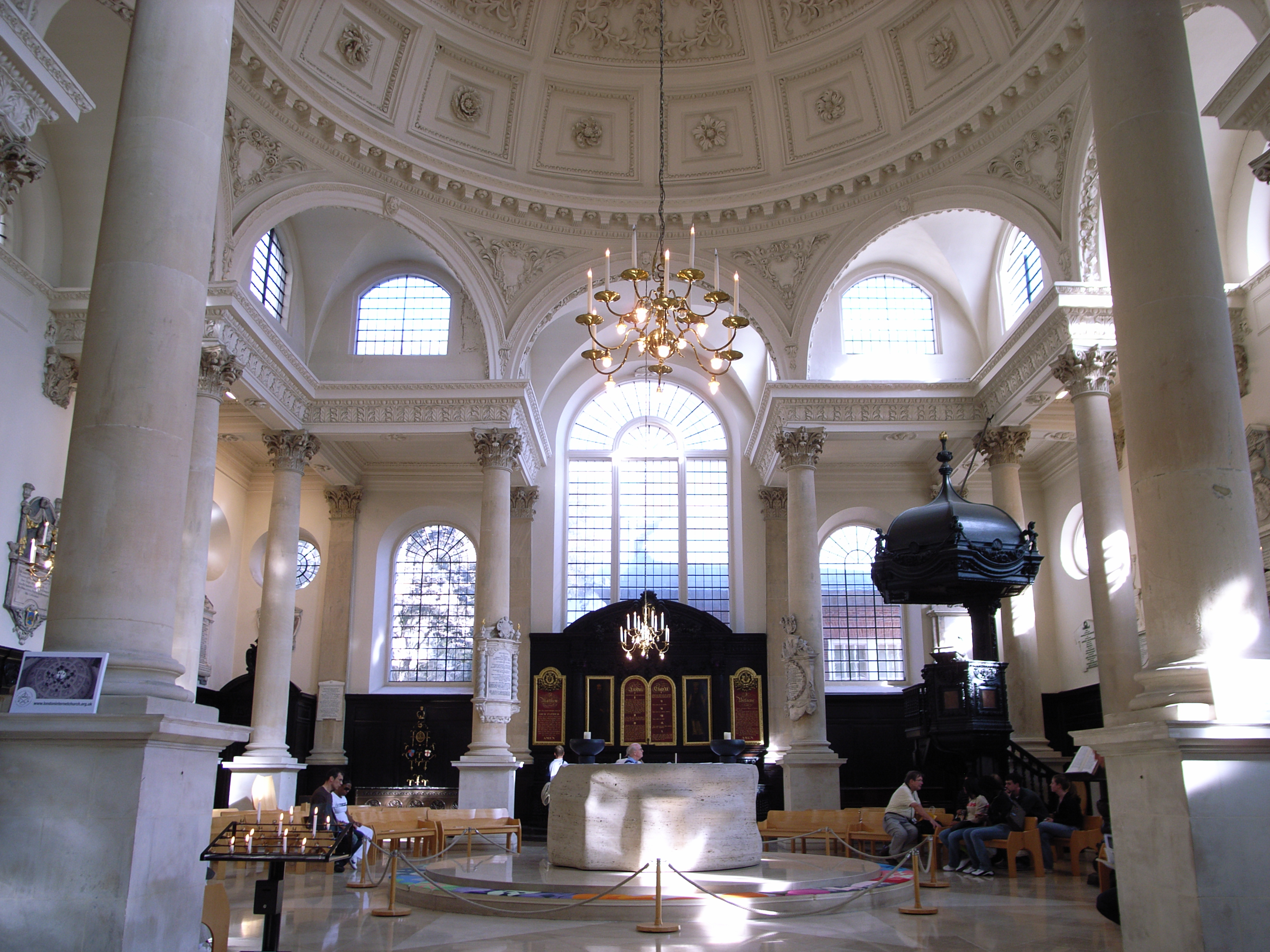 Summary:Interior of St Stephen Walbrook Author:stevecadman